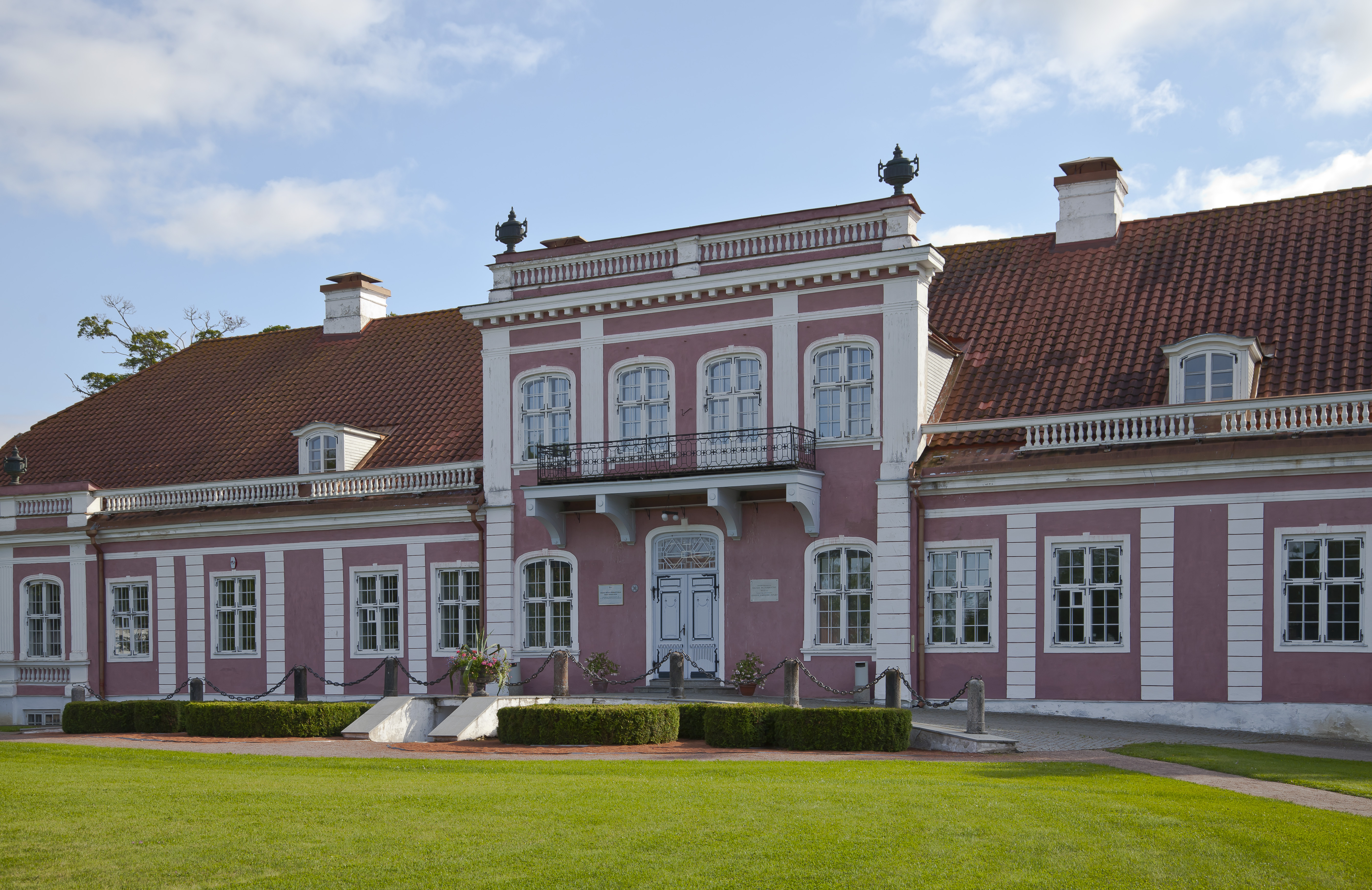 Sagadi manor, Estonia